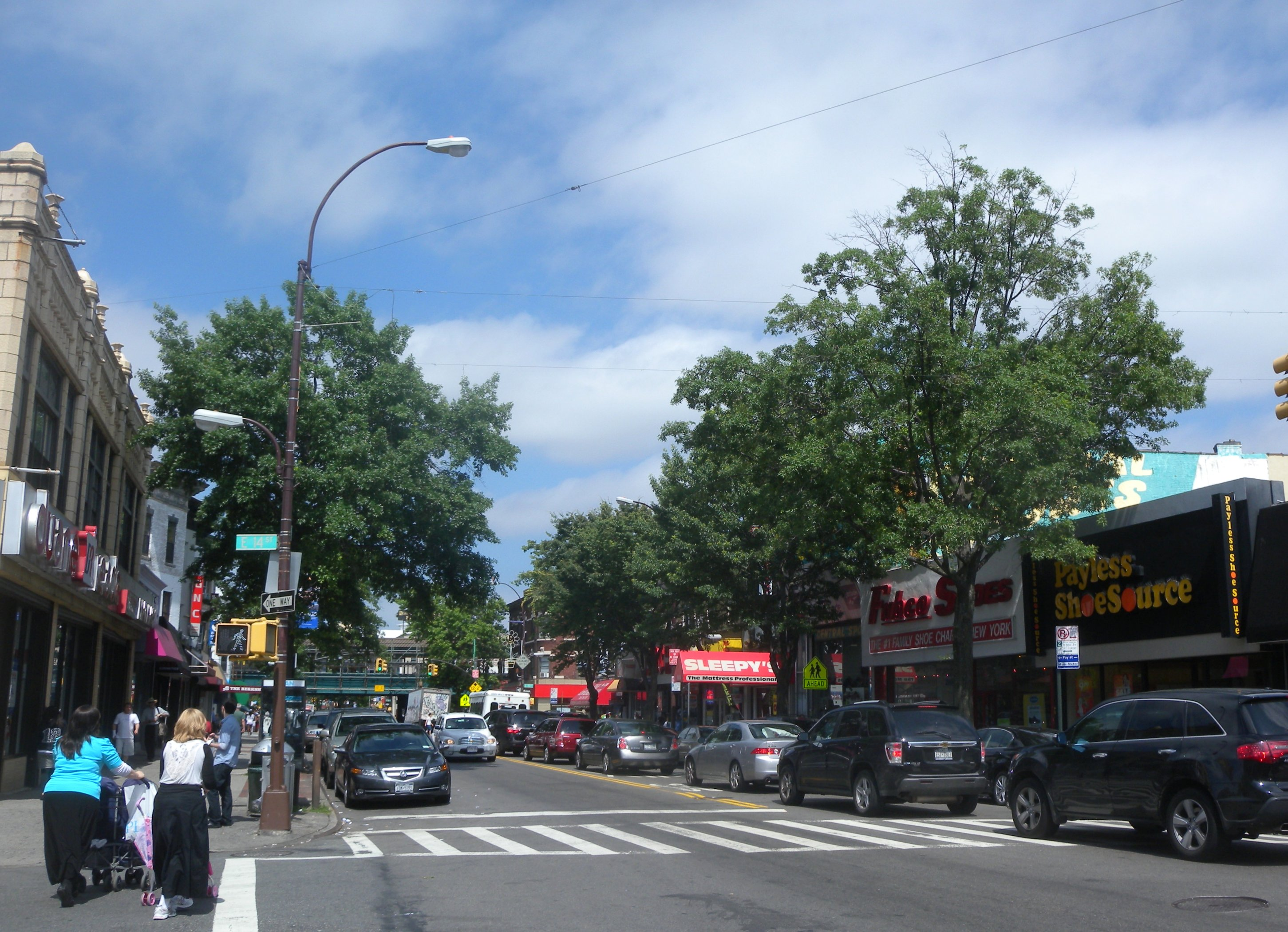 Looking east along Kings Highway on a mostly sunny afternoon.